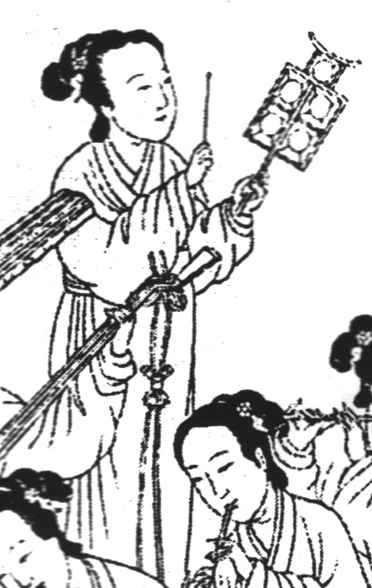 Player with five-gong yunluo. From larger ancient Chinese dynastic engraving (clip art) in the public domain. Full engraving at :Image:Ancientchineseinstrumentalists.jpg.